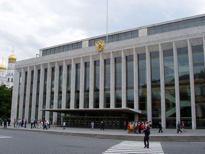 Moscow, the Kremlin. State Kremlin Palace